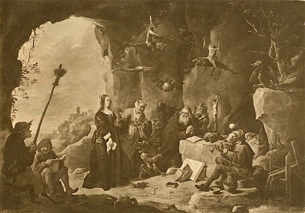 'The Temptation of Saint Anthony', by David Teniers the Younger (1647), a painting possibly destroyed in the Friedrichshain flak tower fire in Berlin, at the end of the Second World War (May 1945). The painting belonged to the collections of the Kaiser-Friedrich-Museum, now the Bode-Museum of Berlin.